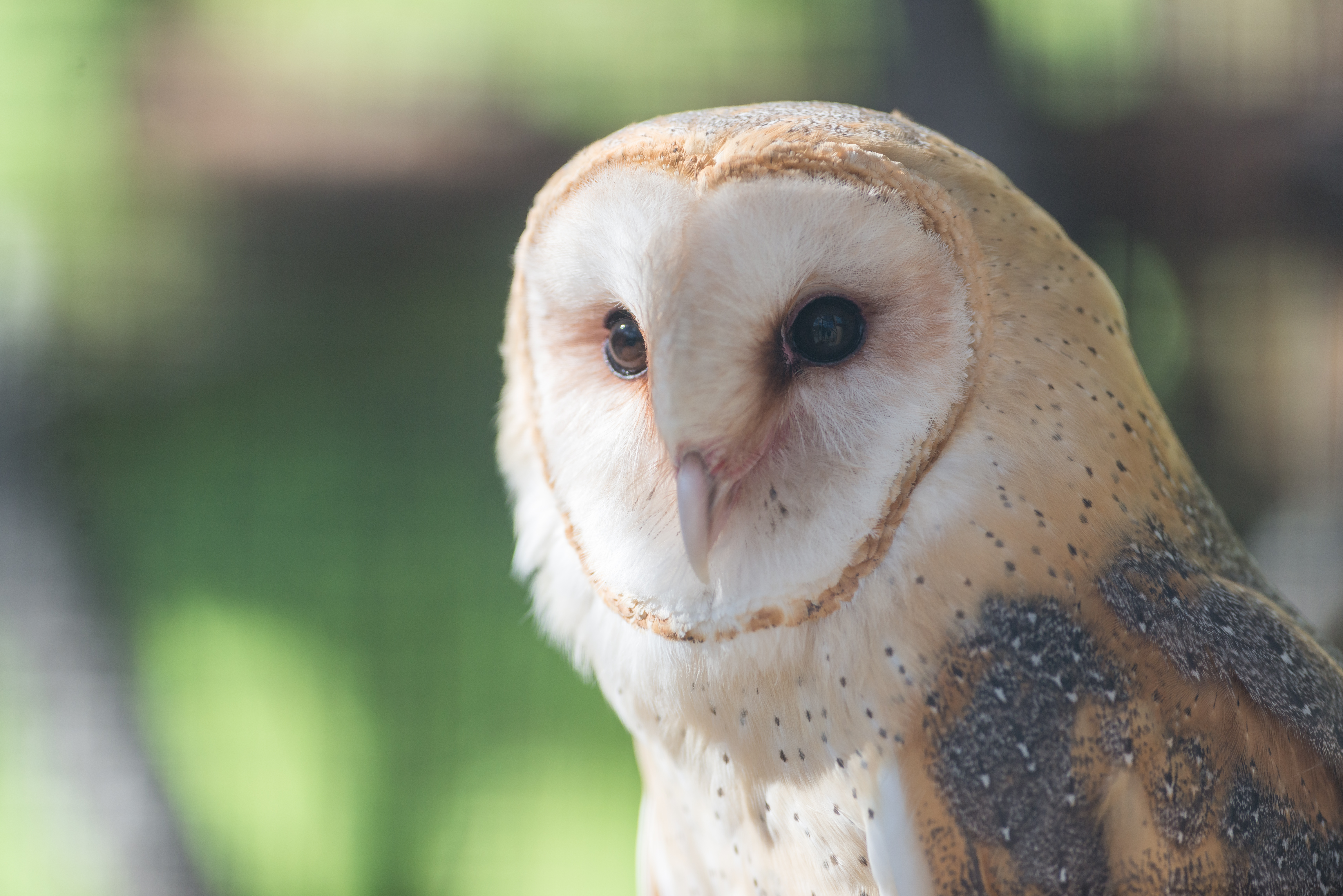 Barn Owl Face